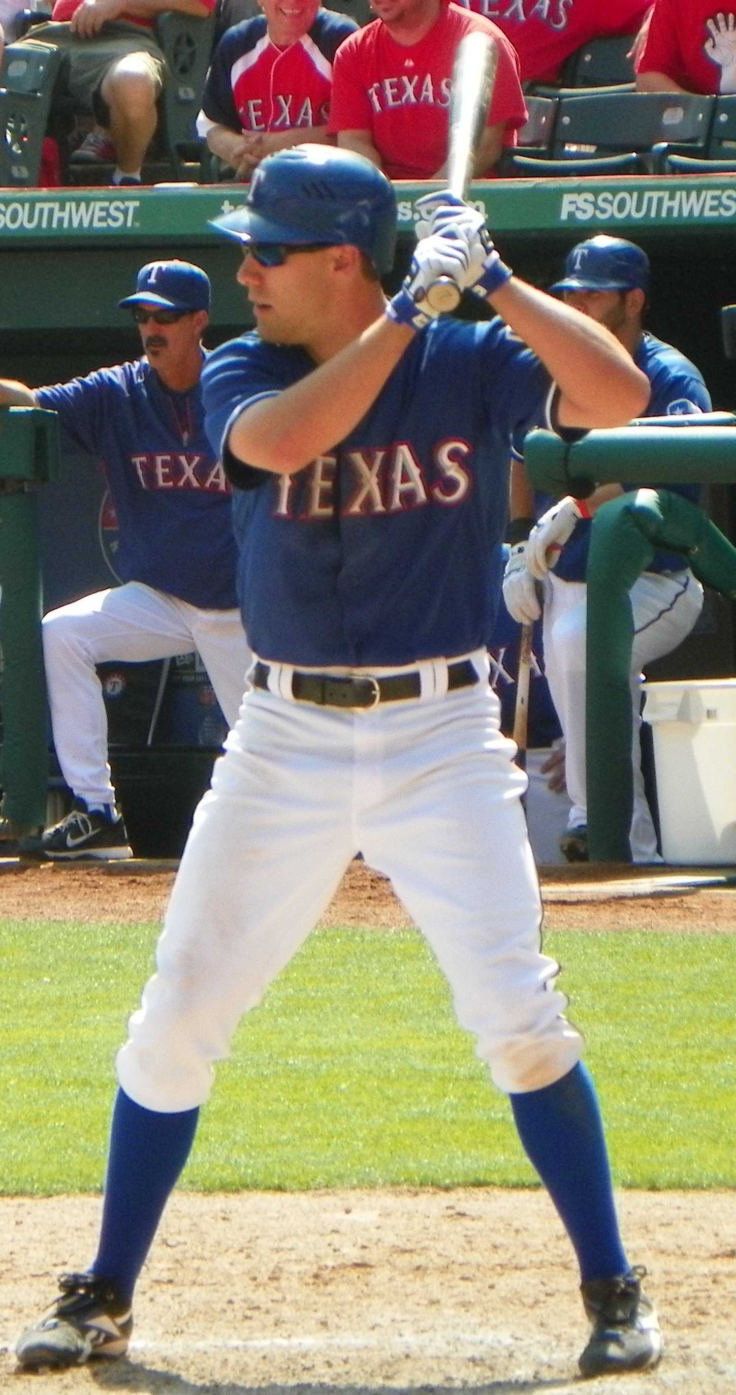 David Murphy at bat